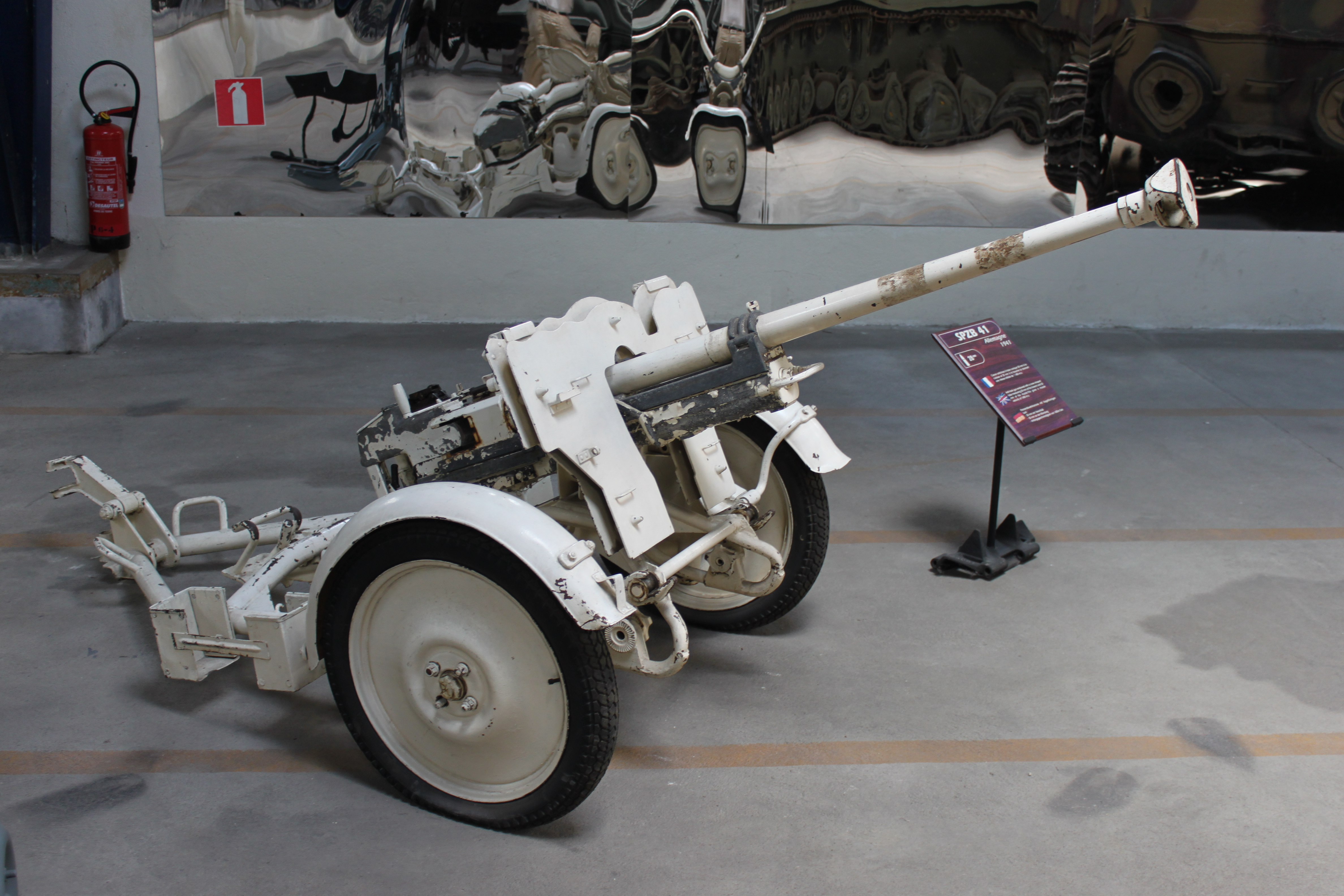 German 2,8cm-gun SPZB41 (WW II) at the "Musée des Blindés" in Saumur (France)